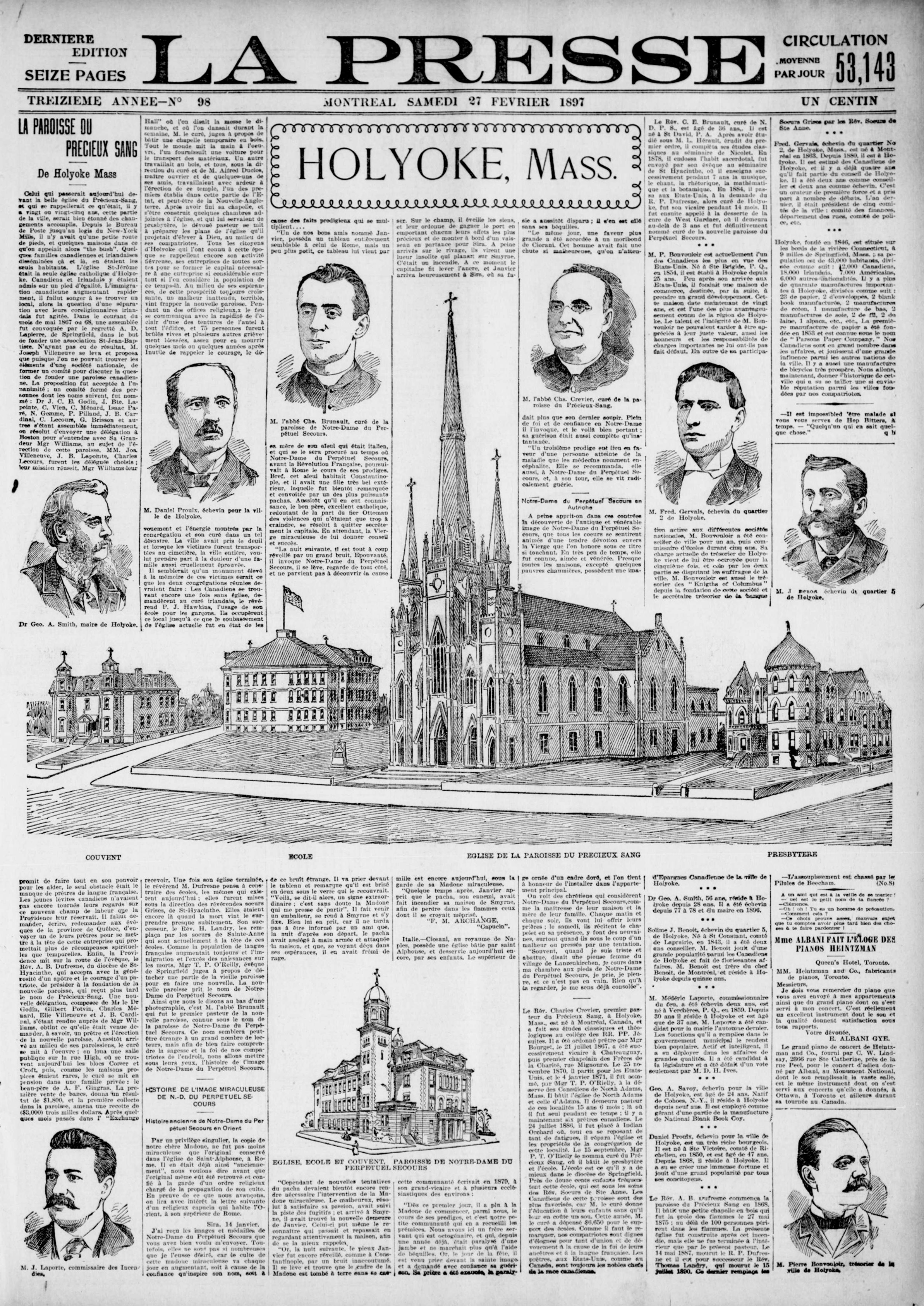 Front page of La Presse, featuring the Precious Blood parish of Holyoke, Massachusetts.